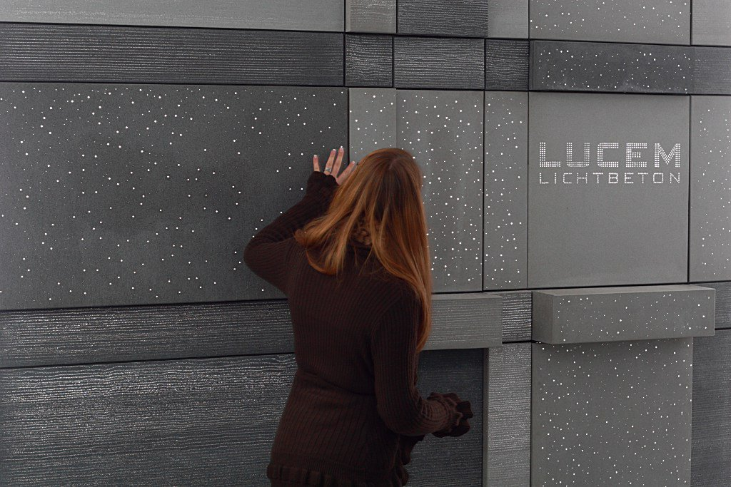 LUCEM Translucent Concrete booth at Expo Bau 2011